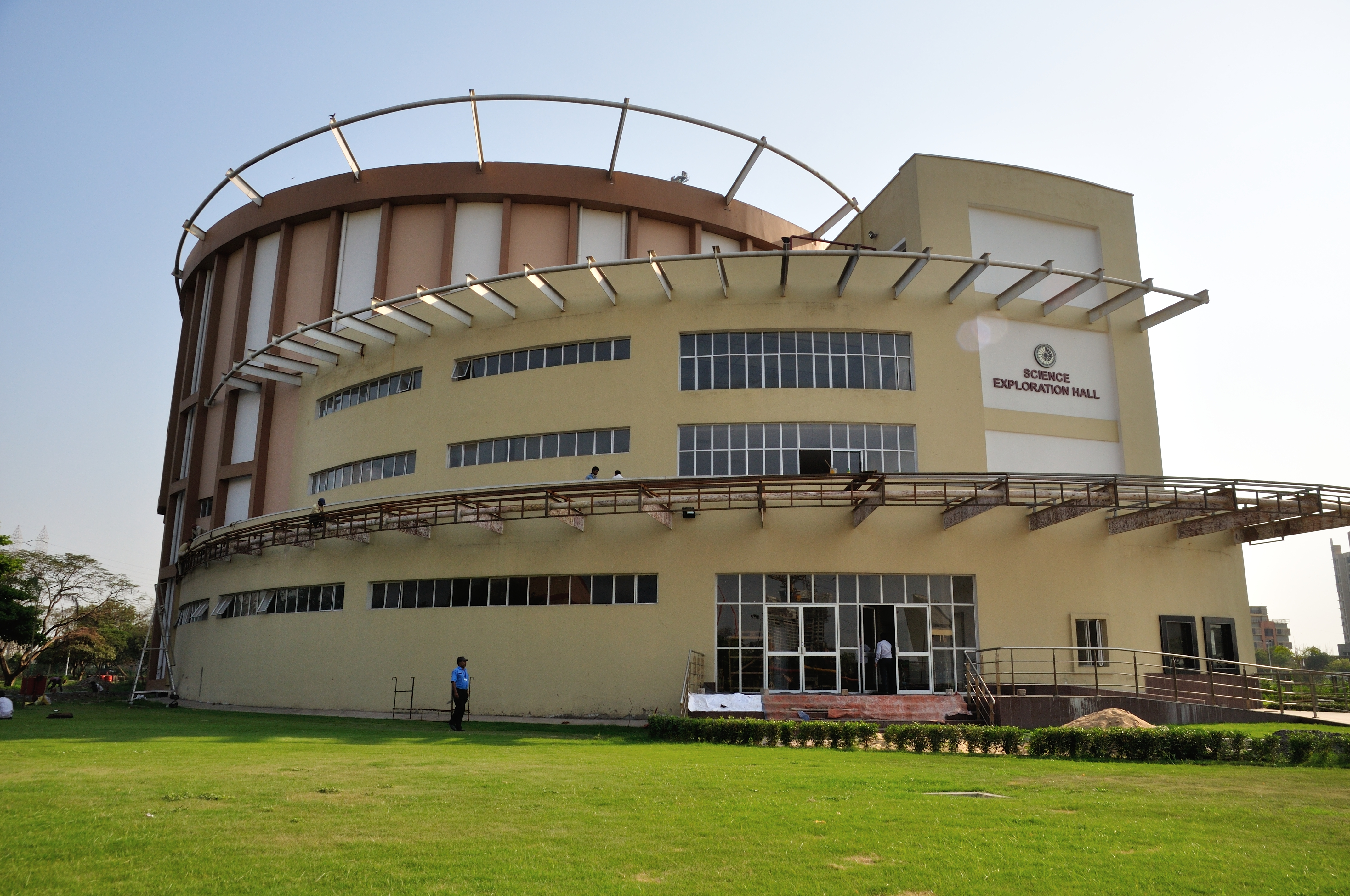 Photographed in Kolkata.